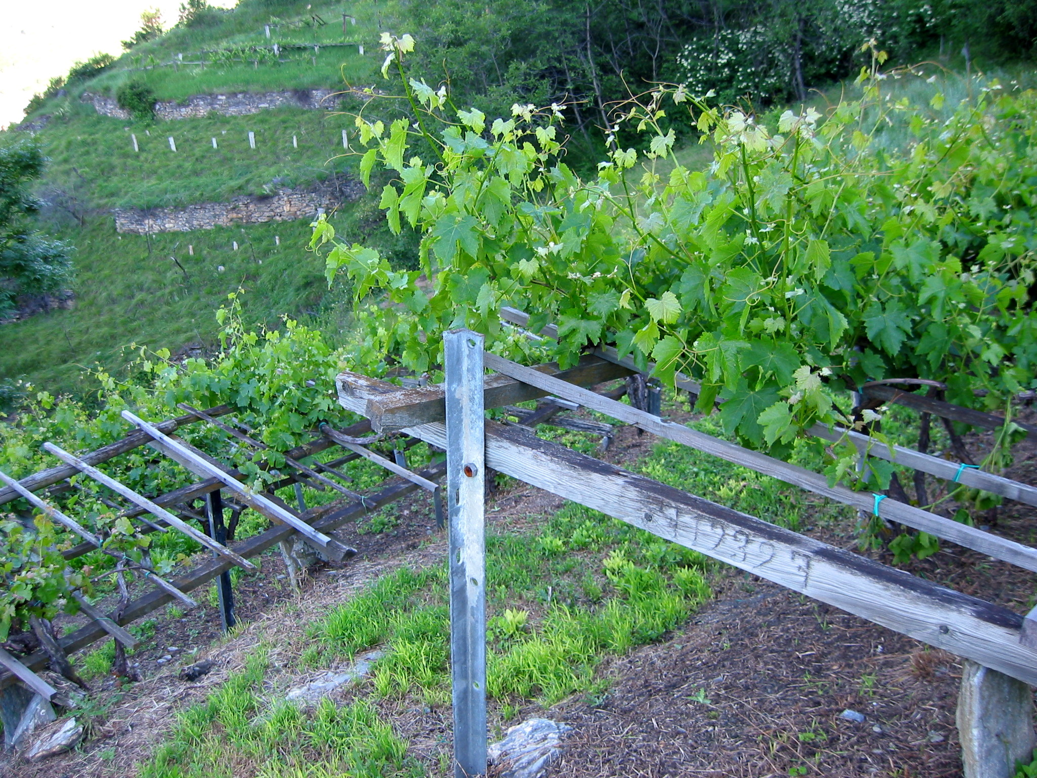 Prié Blanc Vineyards at Morgex, Aosta Valley (Italy)